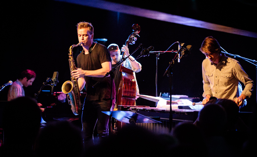 Marius Neset Quintet and Stian Carstensen at the stage of EnergiMølla. The concert took place on 08. July 2017 in Kongsberg. Lineup:Marius Neset (saxophone)Ivo Neame (piano)Jim Hart (vibraphone)Petter Eldh (bass guitar)Anton Eger (drums)Stian Carstensen (accordion)